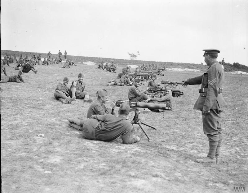 The US Army on the Western Front, 1917-1918 Machine Gunners of the 77th American Division during training under the 39th Battalion, Machine Gun Corps. Near Moulle, 22 May 1918.